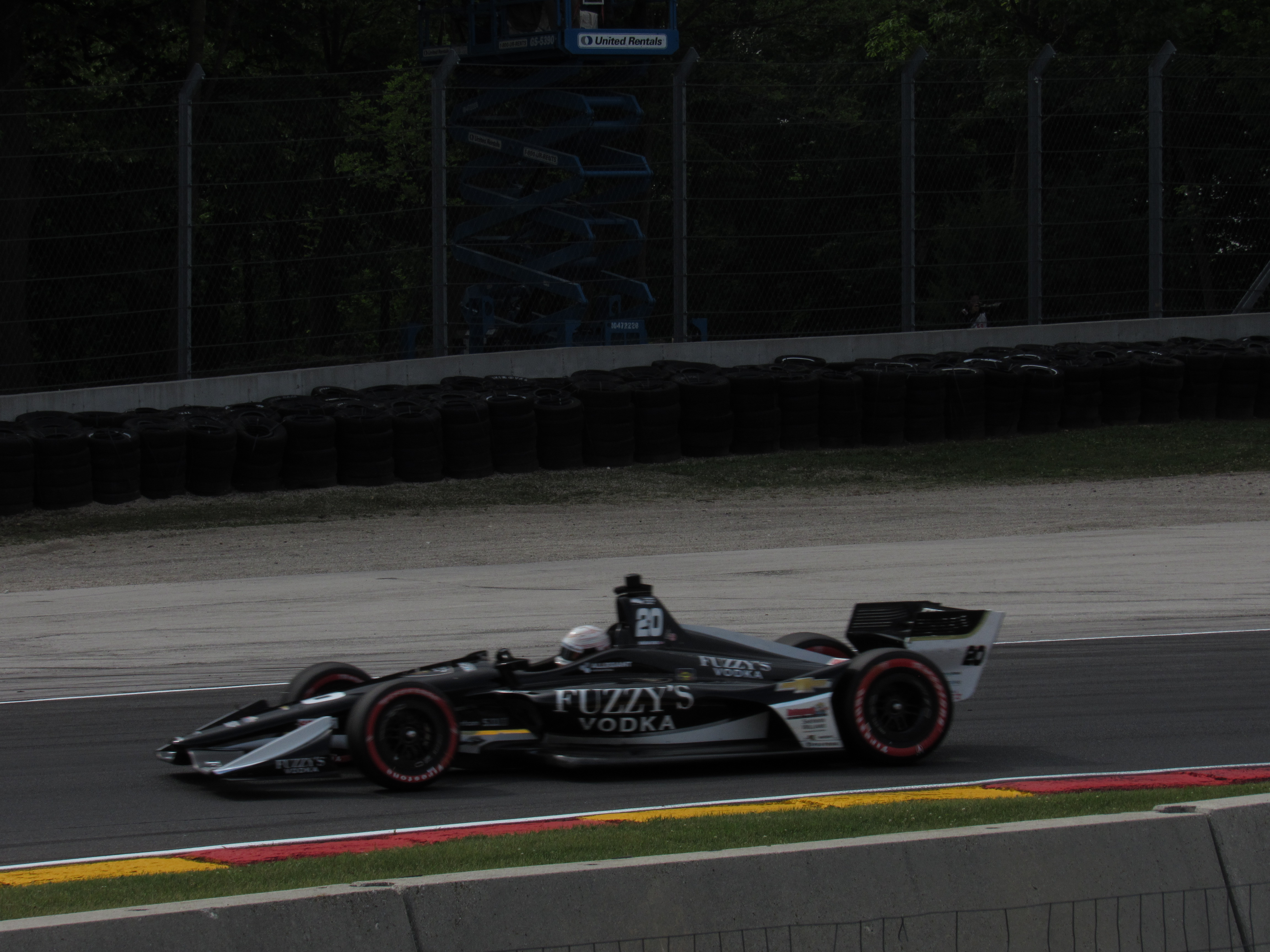 Jordan King takes practice laps in his Ed Carpenter Racing car in preparation for the 2018 Kohler Grand Prix.